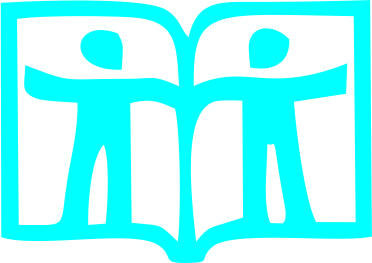 International Book Year 1972 (blue logo)